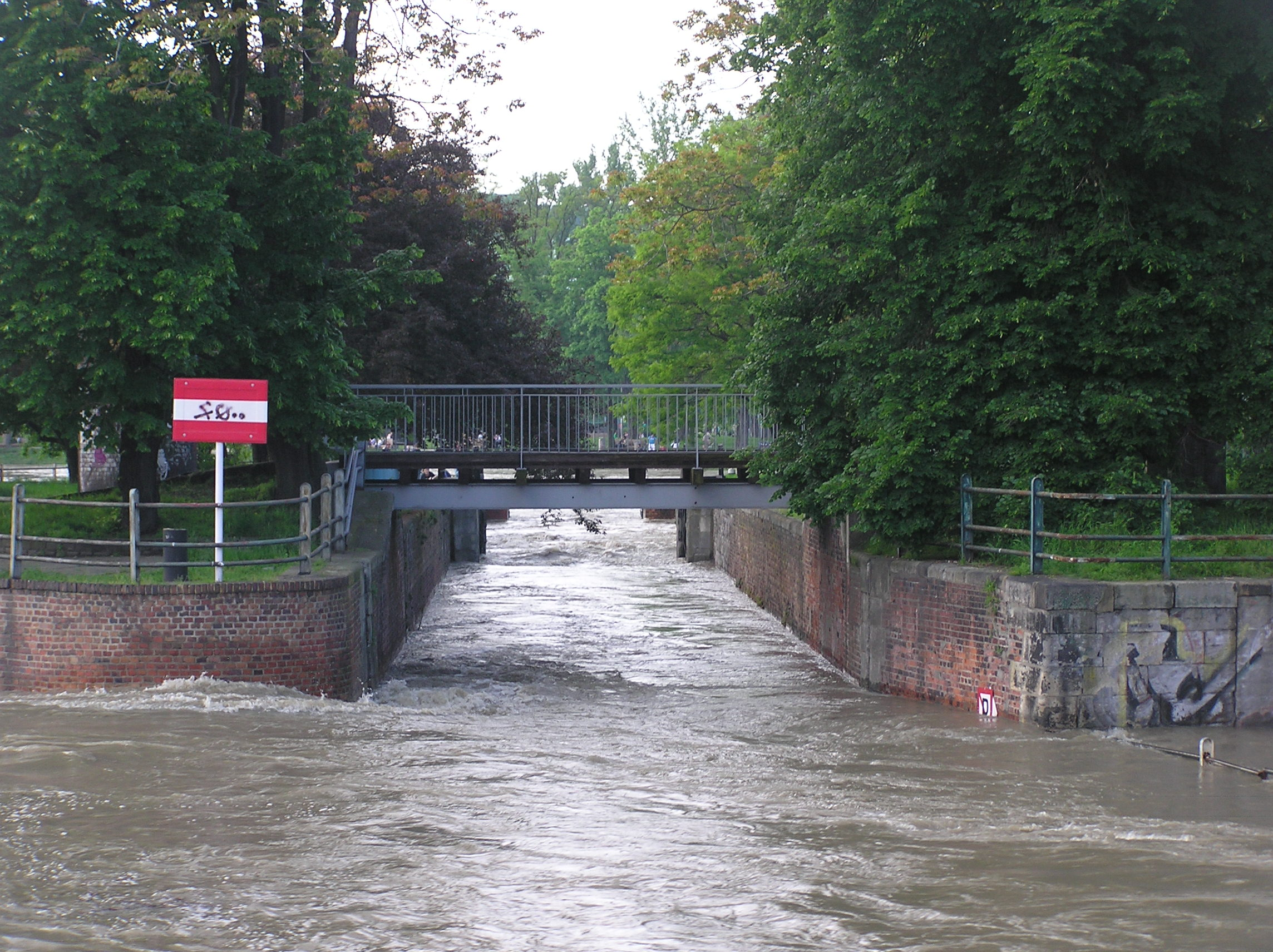 Wrocław, Piaskowa Lock